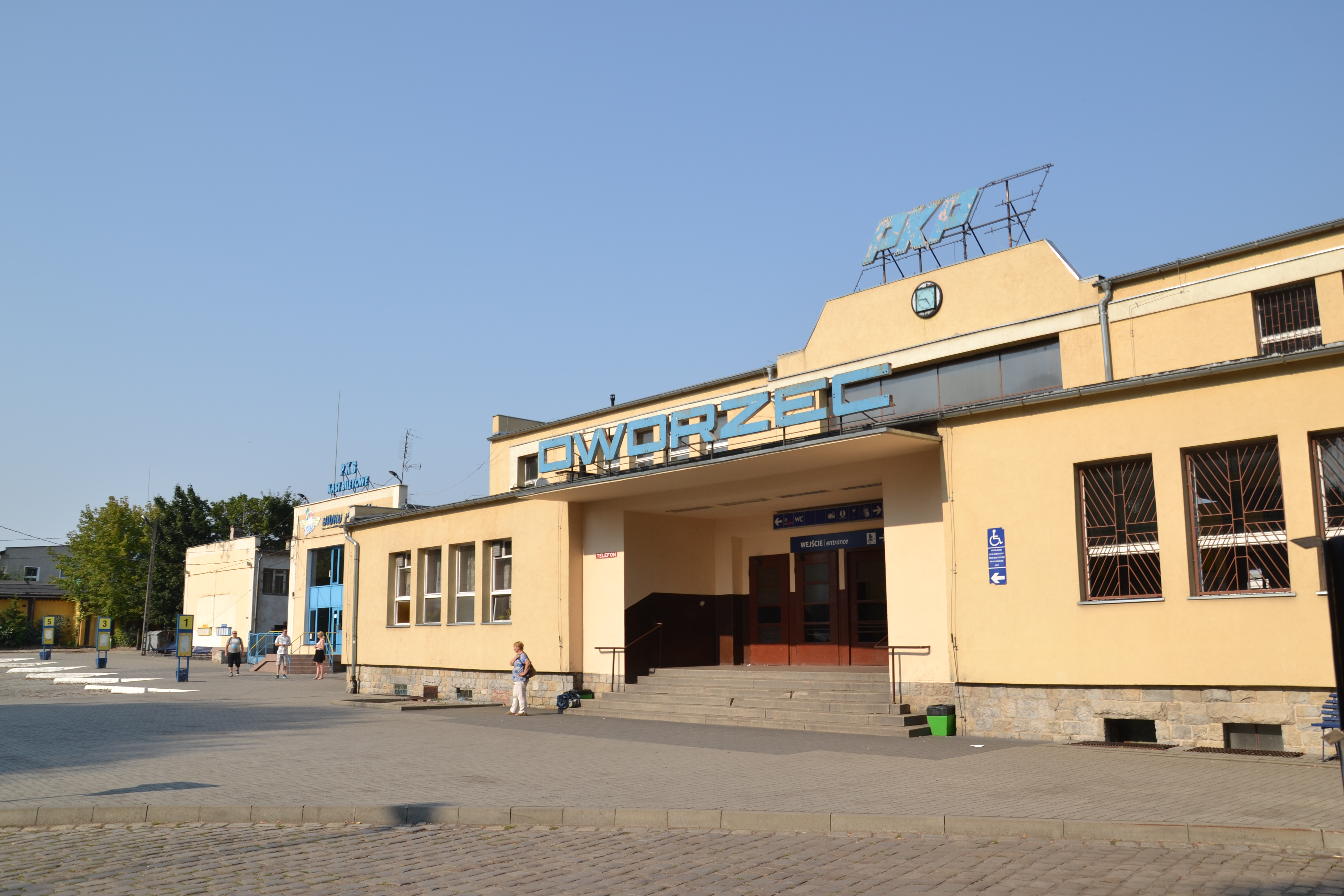 Widok dworca kolejowego w Nysie od strony miasta This photo was taken during Railway Wikiexpedition 2015 set up by Wikimedia Polska Association in cooperation with Fundacja Grupy PKP. You can see all photographs in category Wikiekspedycja kolejowa 2015.